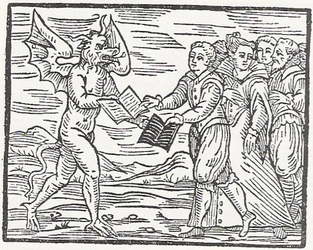 Wood Engraving 5 from the Compendium Maleficarum